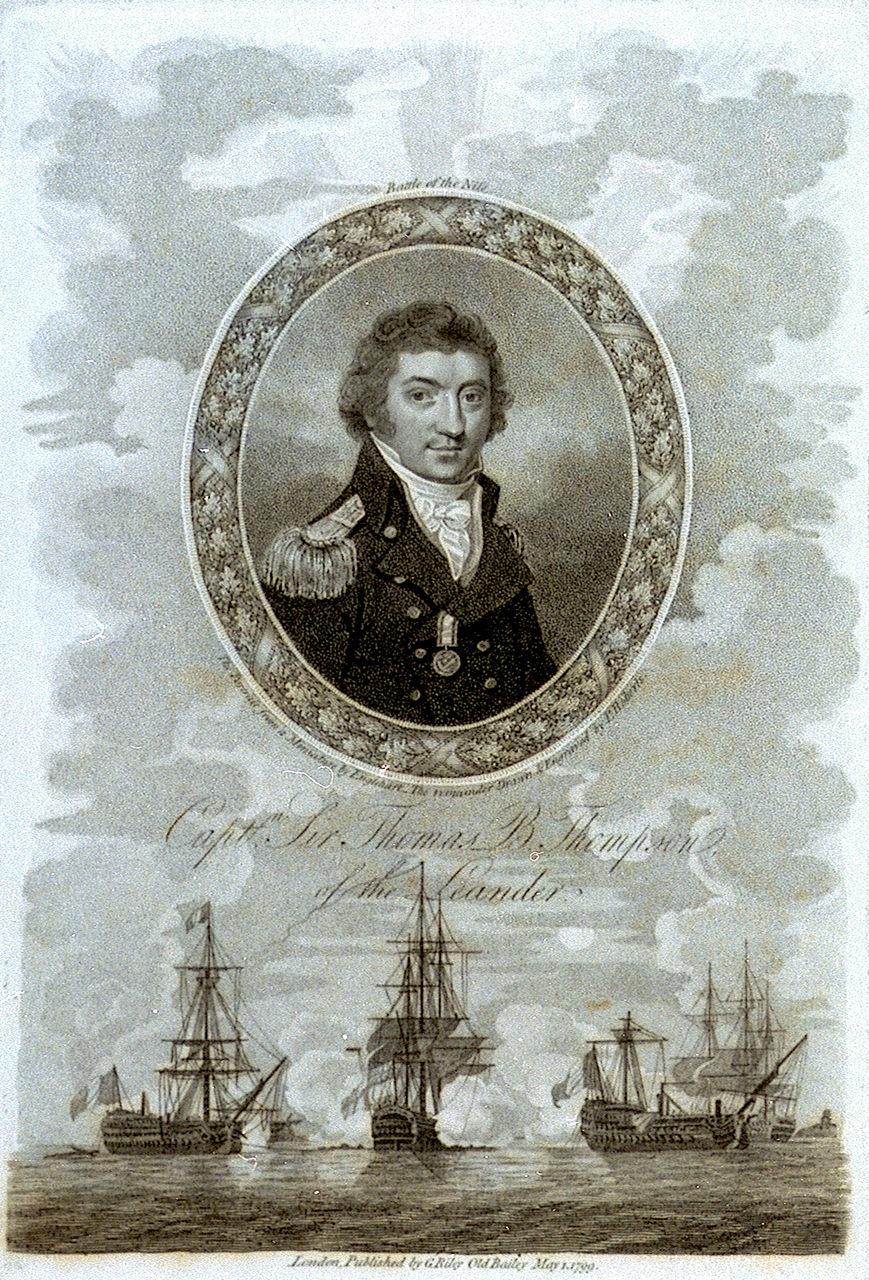 Captn Sir Thomas B. Thompson of the Leander Depicted at the Battle of the Nile